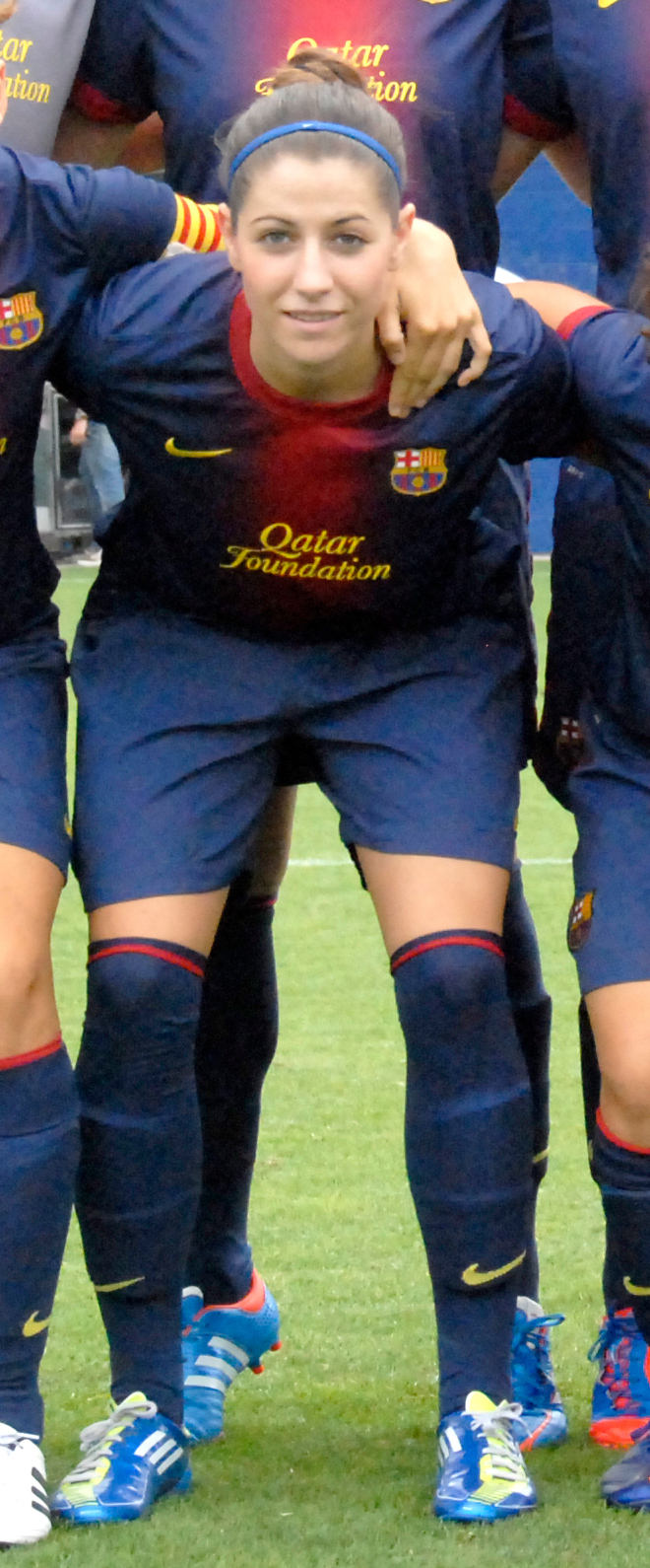 FC Barcelona women player Vicky Losada in September 2012